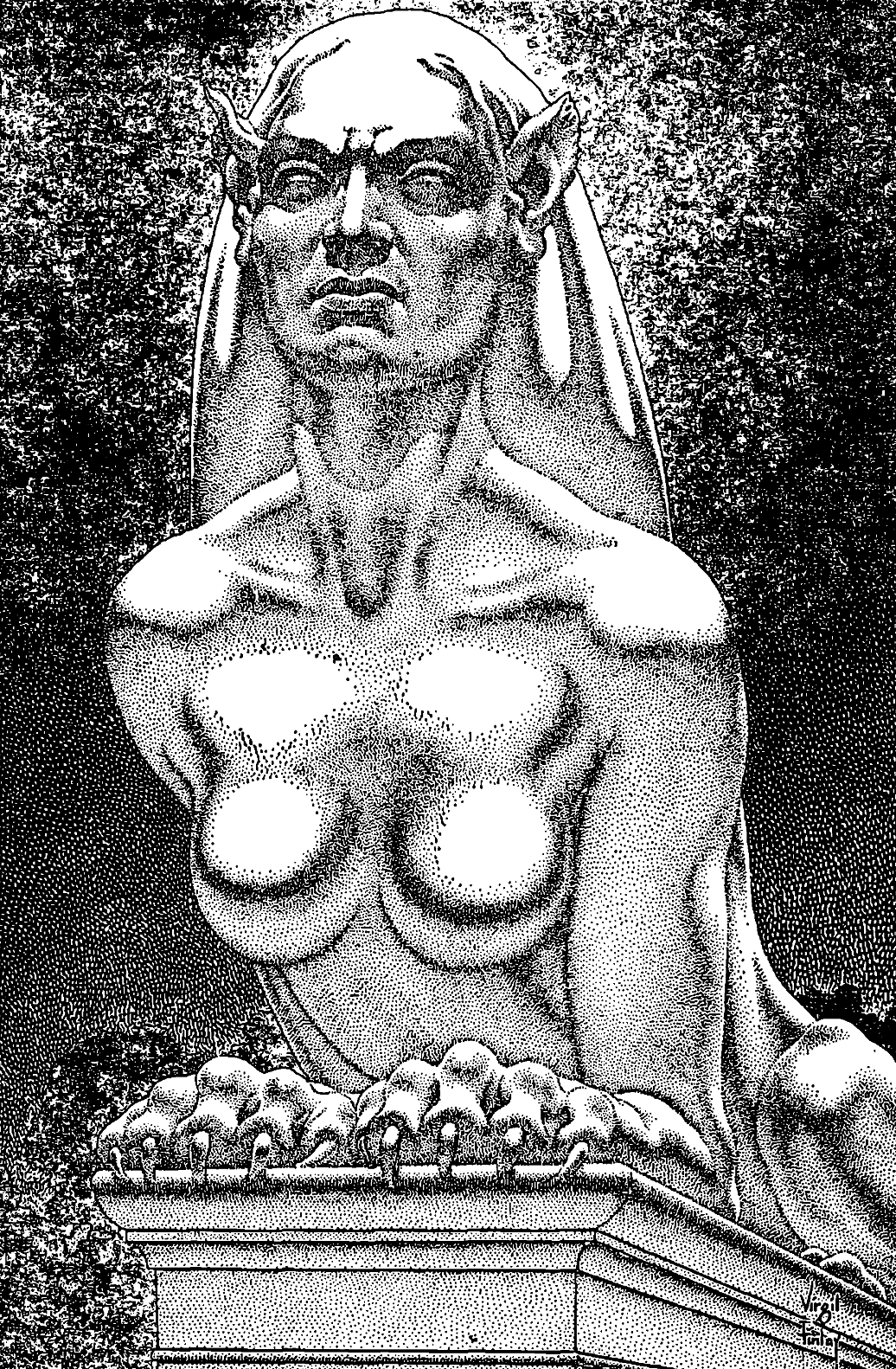 Ilustration by Virgil Finlay from H.G. Wells' novel "The Time Machine", published in the magazine Famous Fantastic Mysteries; August 1950. Orginal caption / Oryginalny podpis